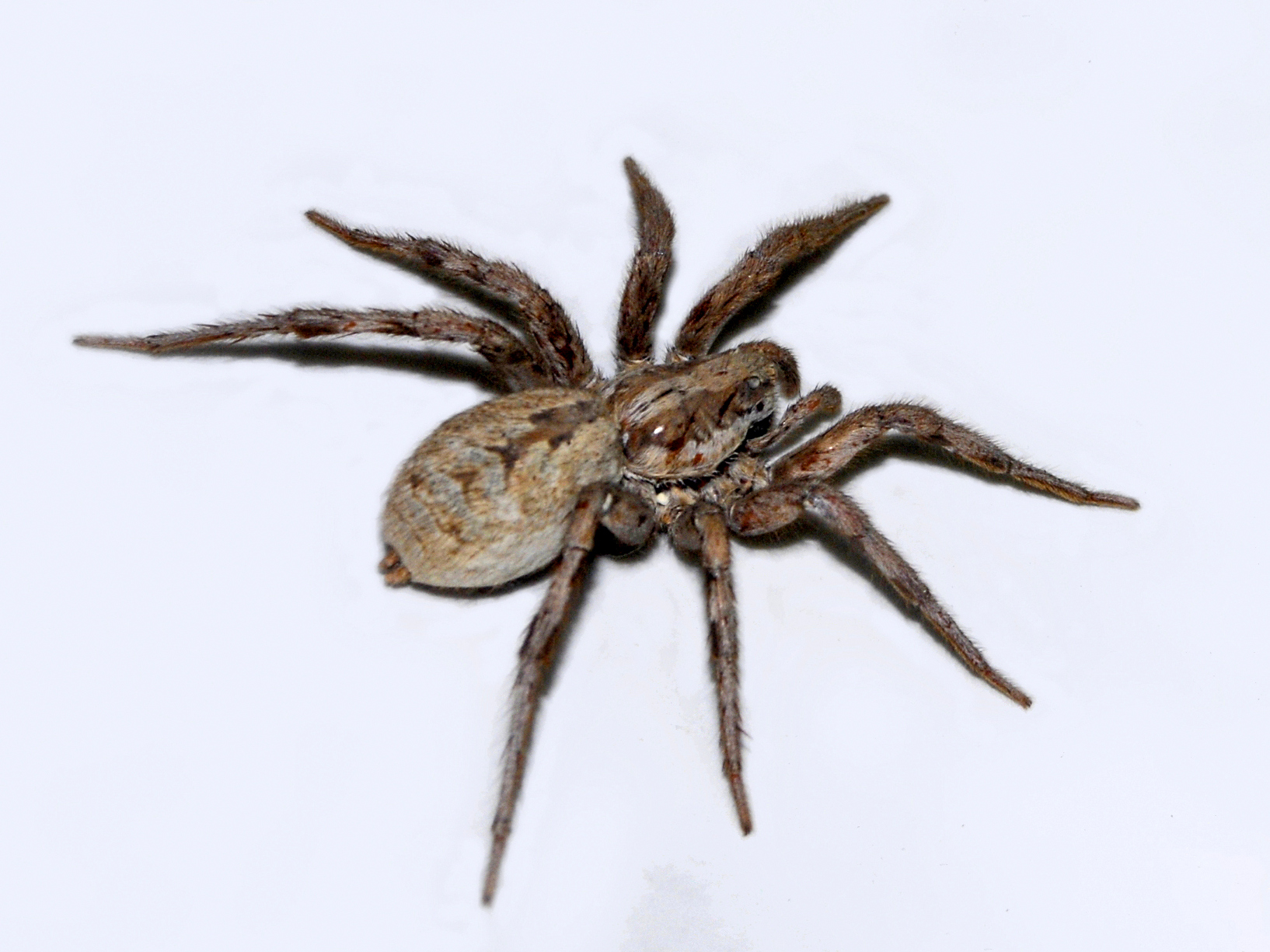 Museum specimen of Lycosa narbonensis from Sicily. On display at Museo Civico di Storia Naturale di Milano